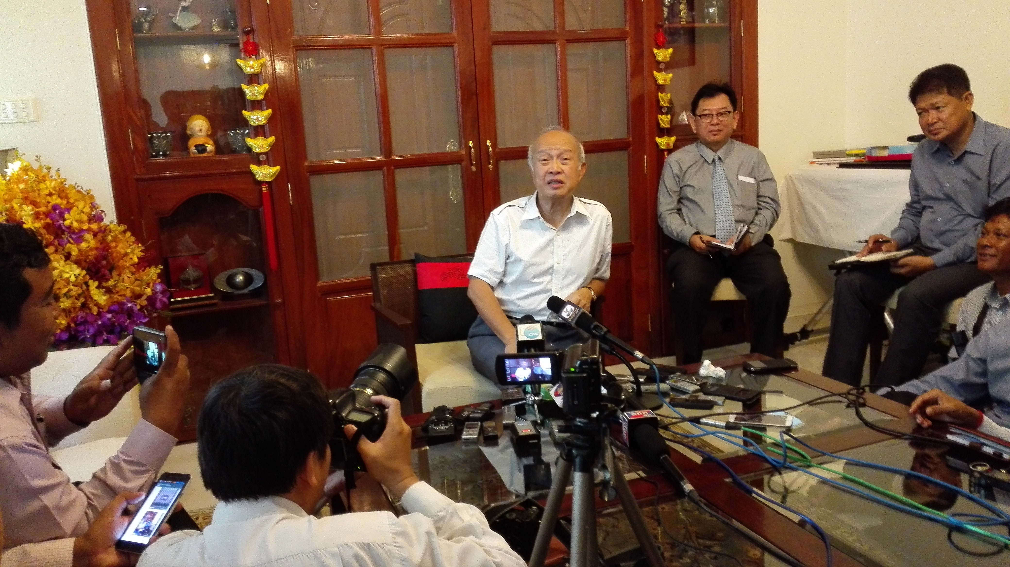 Prince Ranariddh announcing his return to the Funcinpec party in front of reporters